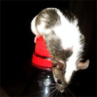 Pet mouse. Female, three months old. Color: Agouti Even Mismark.